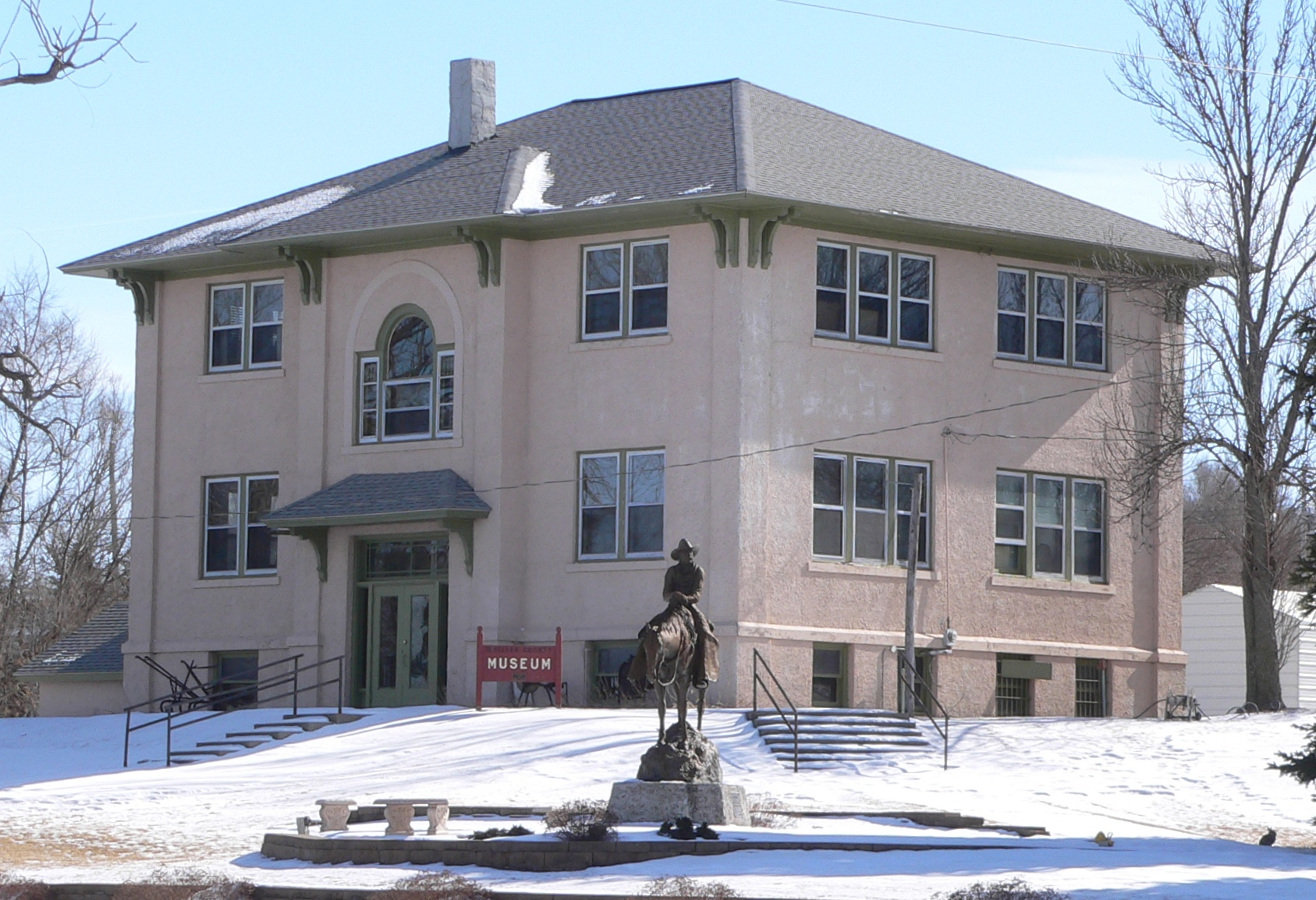 Former Wheeler County Courthouse in Bartlett, Nebraska; seen from the northwest. The courthouse was built in 1918 in Spanish Revival or Mission style. It is now operated as a museum by the Wheeler County Historical Society. The building is listed in the National Register of Historic Places. The equestrian statue is "Silent Leather" by Western artist Herb Mignery, who was raised on a ranch near Bartlett.